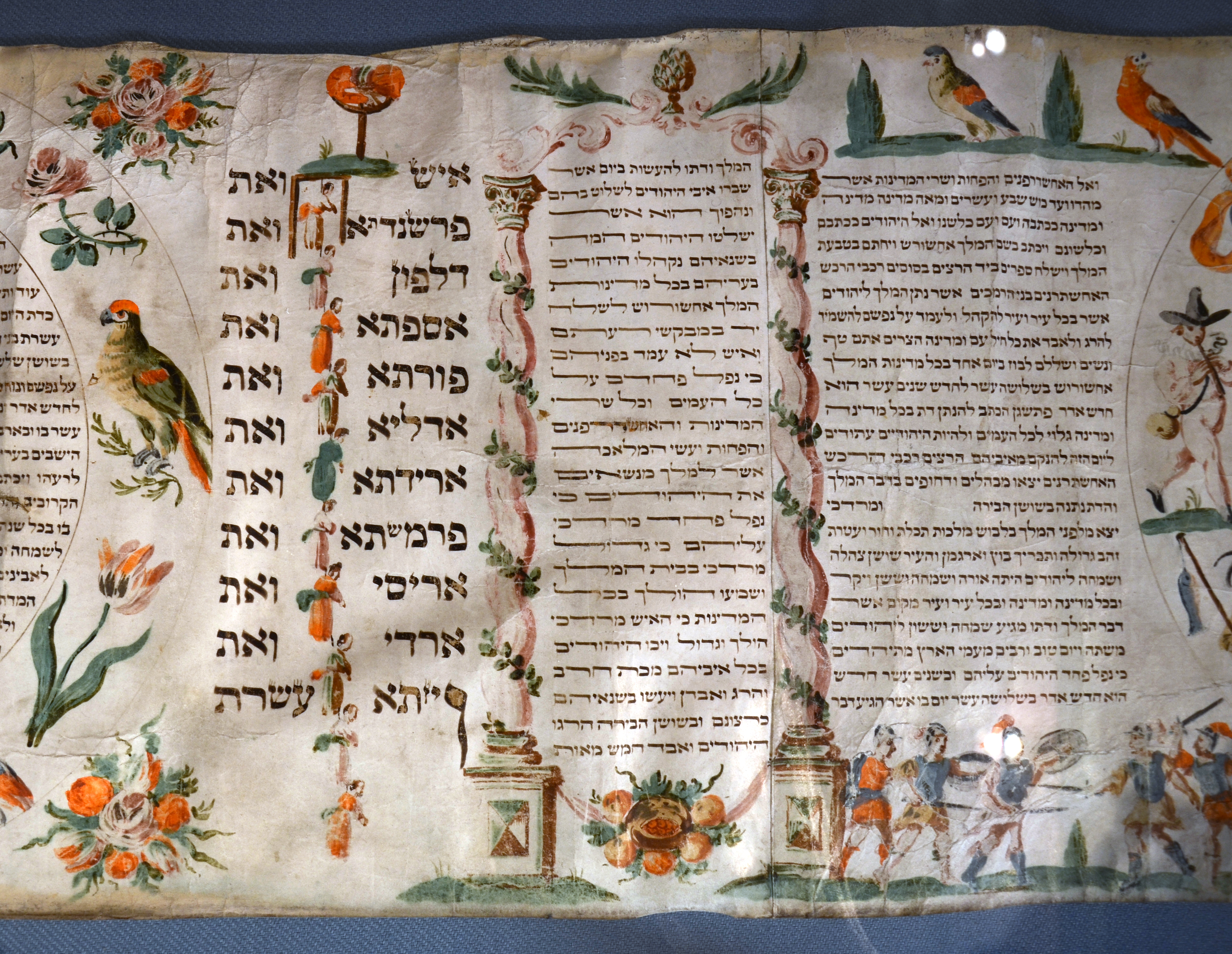 Book of Esther, written on a scroll ( megillah ) to be read on the festival of Purim. Parchment, from Alsace (?), 18th century. Now in the Joods Historisch Museum in Amsterdam.